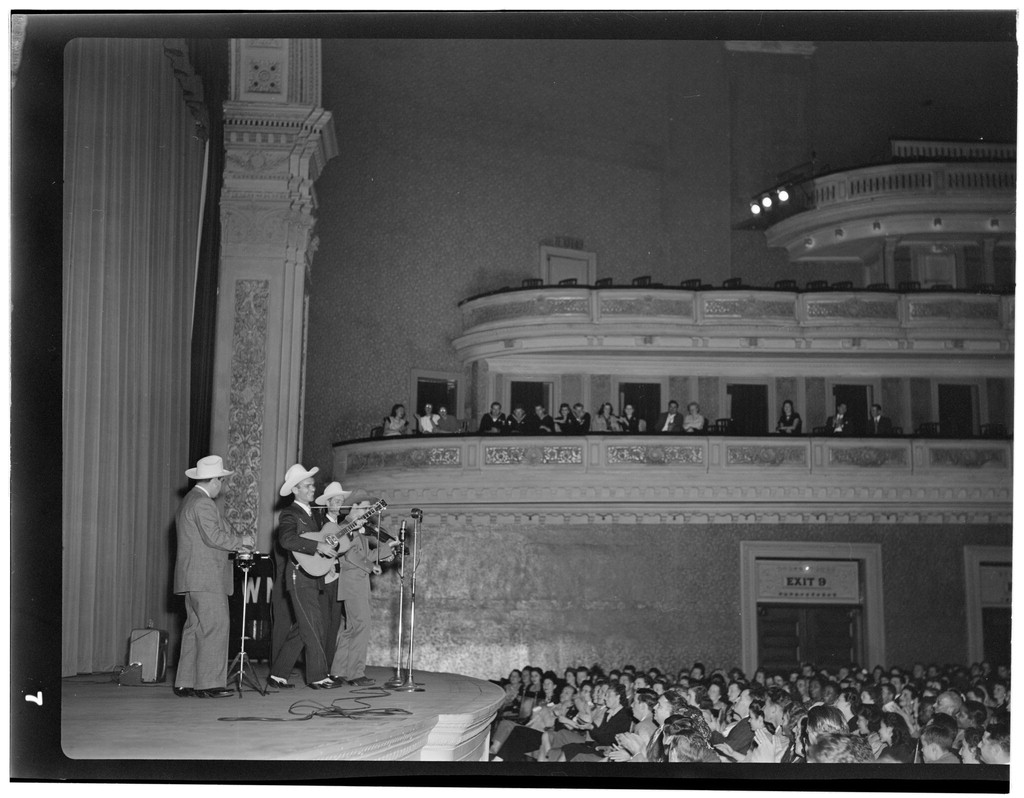 Gottlieb, William P., 1917-, photographer. [Portrait of Bob McCoy and Ernest Tubb, Carnegie Hall, New York, N.Y., Sept. 18-19, 1947] 1 negative : b&w ; 3 1/4 x 4 1/4 in. Caption from Down Beat: A cheering, overflowing crowd proved doubters wrong--and that country music had a place on New York's prestigious stage. Notes: Gottlieb Collection Assignment No. 323 Reference print available in Music Division, Library of Congress. Purchase William P. Gottlieb Forms part of: William P. Gottlieb Collection (Library of Congress). In: Collier's, v. 4, no. 37 (Sept. 16, 1997), p. 36. Subjects: McCoy, Bob Tubb, Ernest, 1914- Country musicians--1940-1950. Carnegie Hall Format: Portrait photographs--1940-1950. Group portraits--1940-1950. Film negatives--1940-1950. Rights Info: Mr. Gottlieb has dedicated these works to the public domain, but rights of privacy and publicity may apply. Repository: (negative) Library of Congress, Prints & Photographs Division, Washington D.C. 20540 USA, (reference print) Library of Congress, Music Division, Washington D.C. 20540 USA, Part Of: William P. Gottlieb Collection (DLC) 99-401005 General information about the Gottlieb Collection is available at Persistent URL: Call Number: LC-GLB23- 0875 This work is from the William P. Gottlieb collection at the Library of Congress. Rights and restrictions.In accordance with the wishes of William Gottlieb, the photographs in this collection entered into the public domain on February 16, 2010.